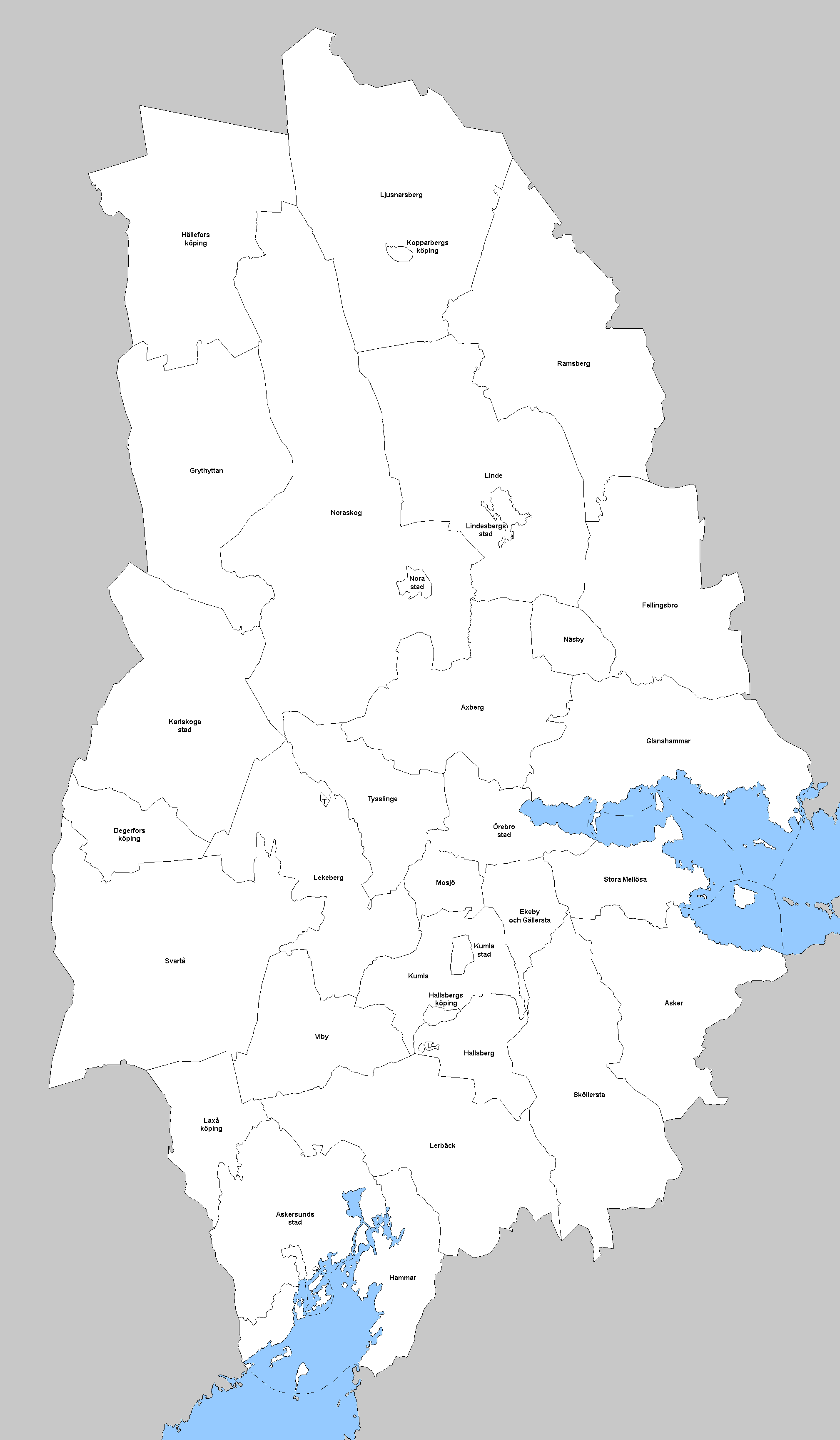 Old municipalities in Örebro county (1952)